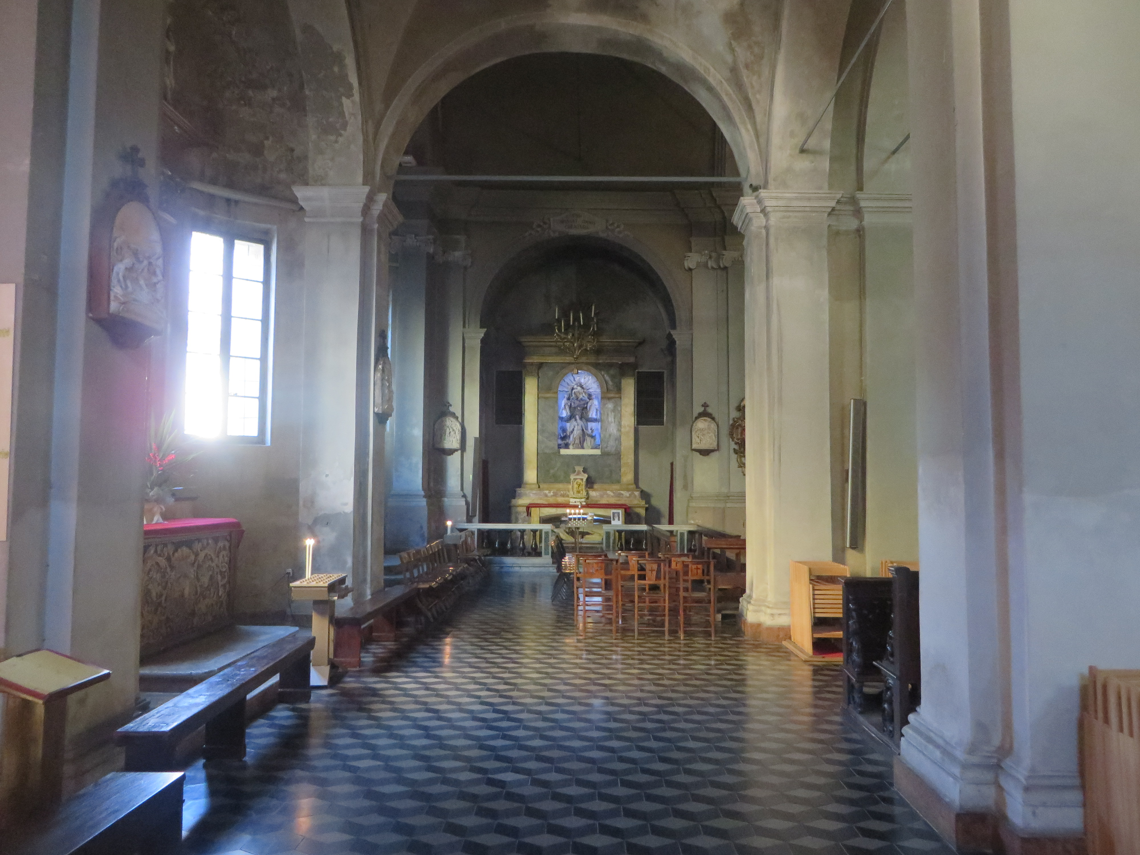 San Secondo Curch